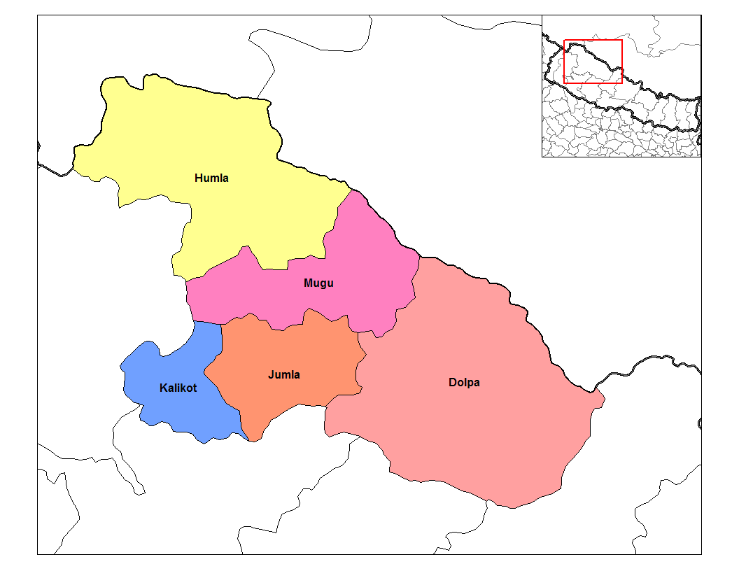 Map of the districts of Karnali Zone in Nepal. Created by Rarelibra 18:59, 18 September 2006 (UTC) for public domain use, using MapInfo Professional v8.5 and various mapping resources.